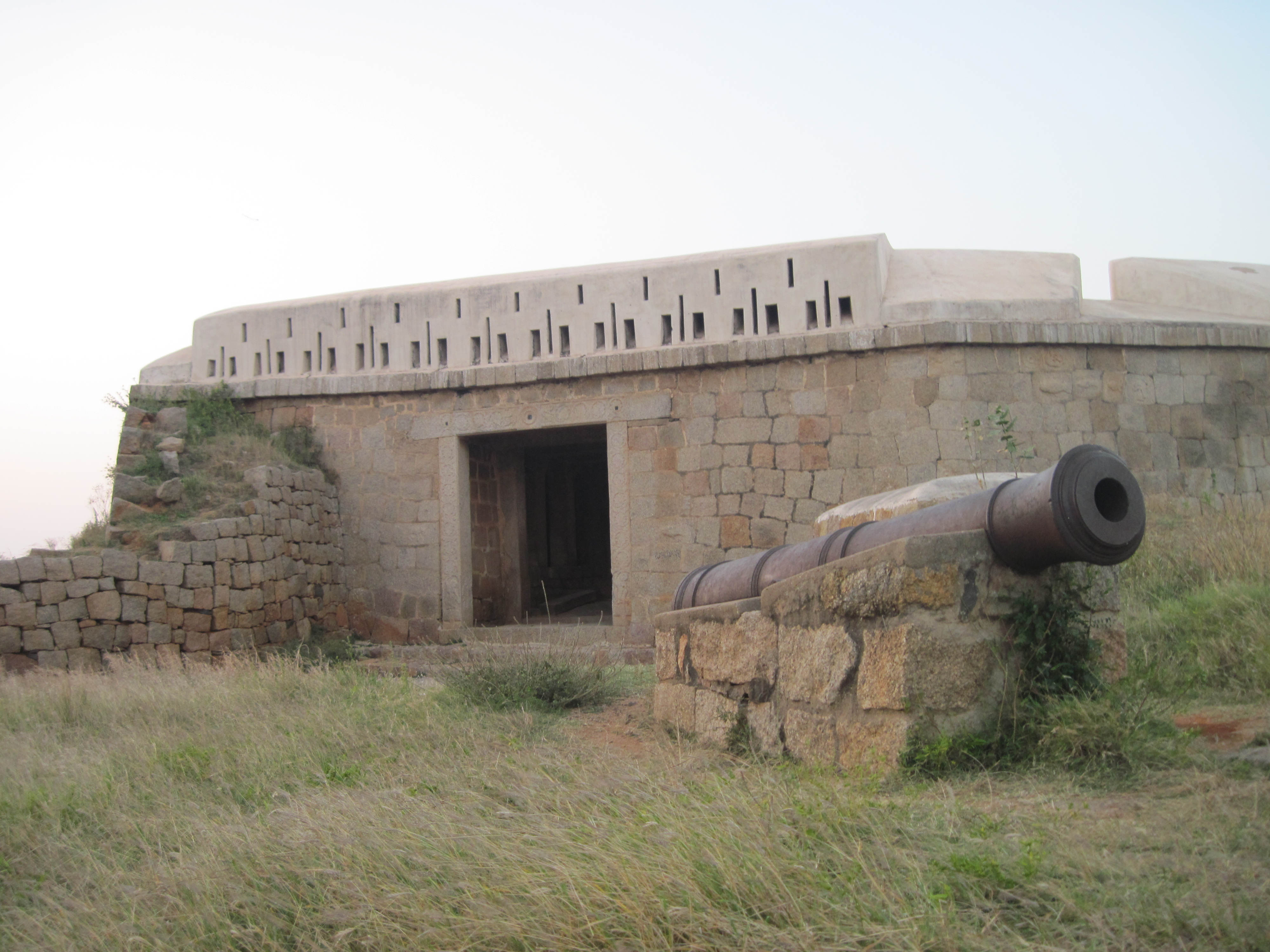 Bandikhane (Jail), Chitradurga Fort ಕನ್ನಡ: ಬಂದಿಖಾನೆ, ಚಿತ್ರದುರ್ಗದ ಕೋಟೆ.